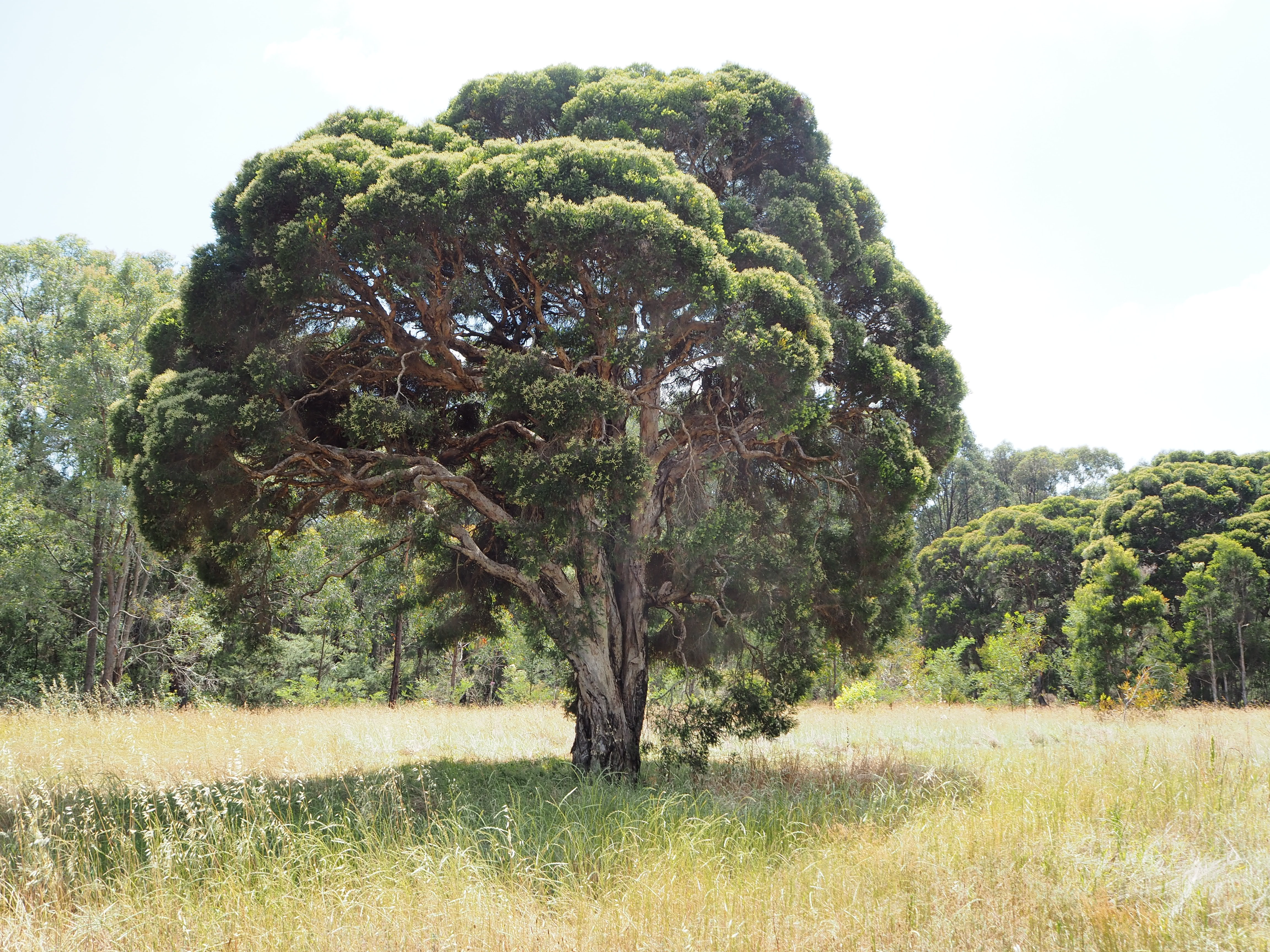 Melaleuca decora near Melita Stadium and Duck River Reserve, Chester Hill